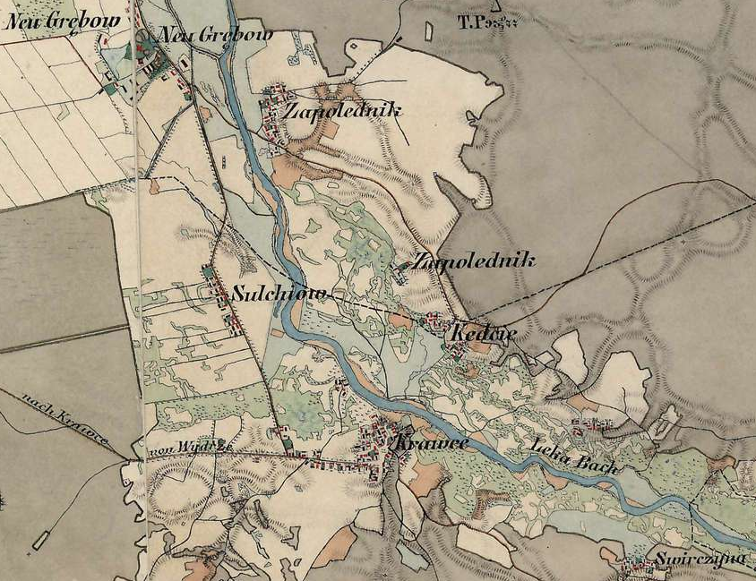 Krawce and Sulechów on an austrian map from around 1855